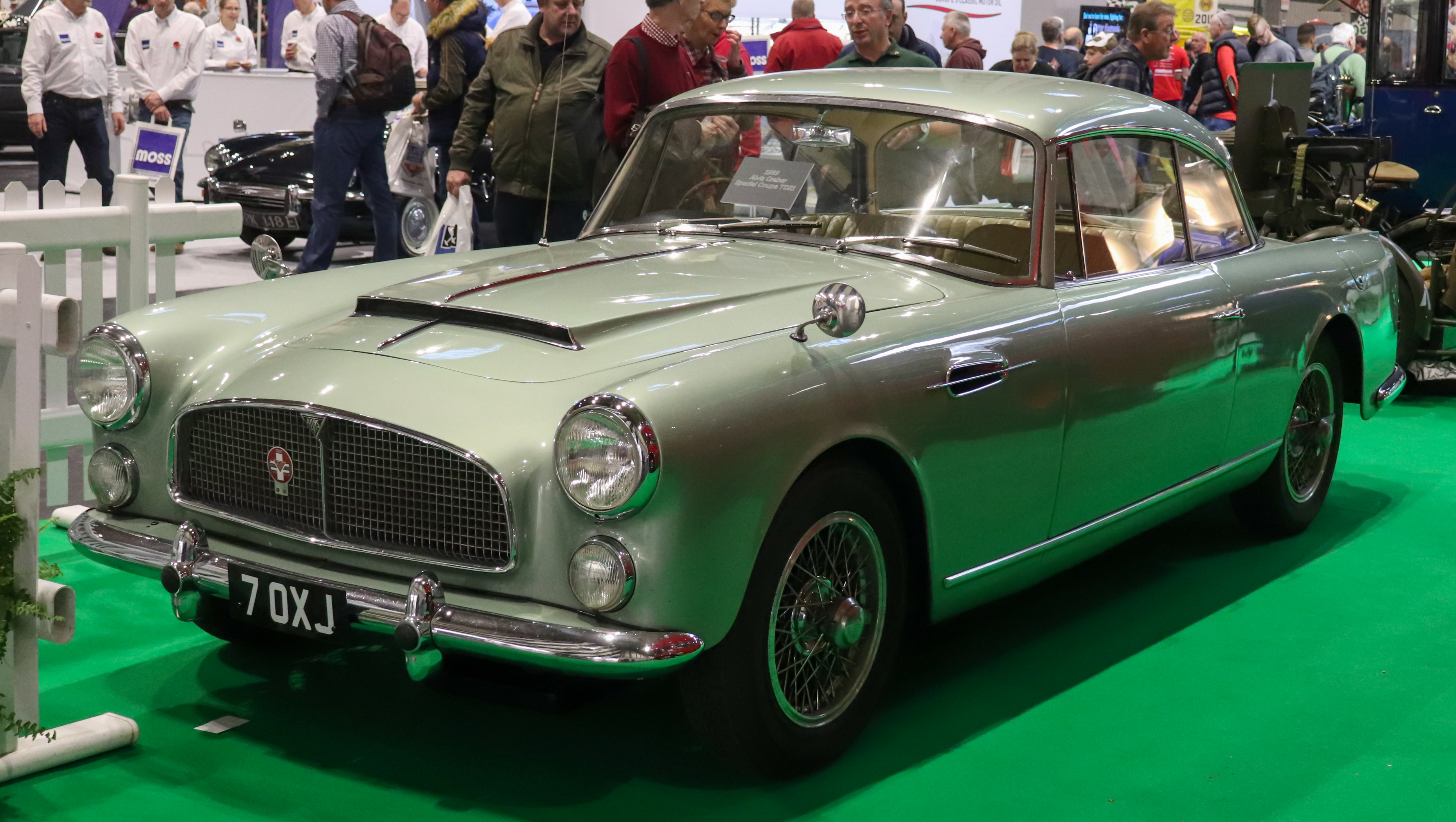 1959 Alvis Graber Special Coupe TD21 3.0 Front Taken at the NEC Classic Motor Show 2019